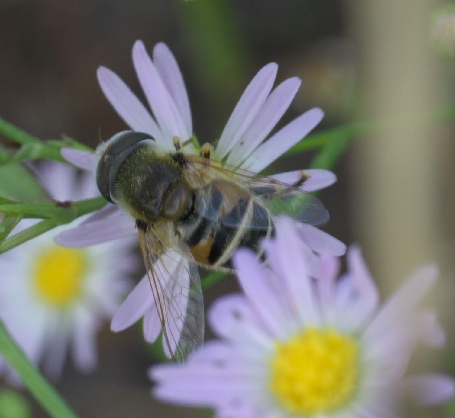 Eristalis, Family: Syrphid Flies, ID Confidence: 90